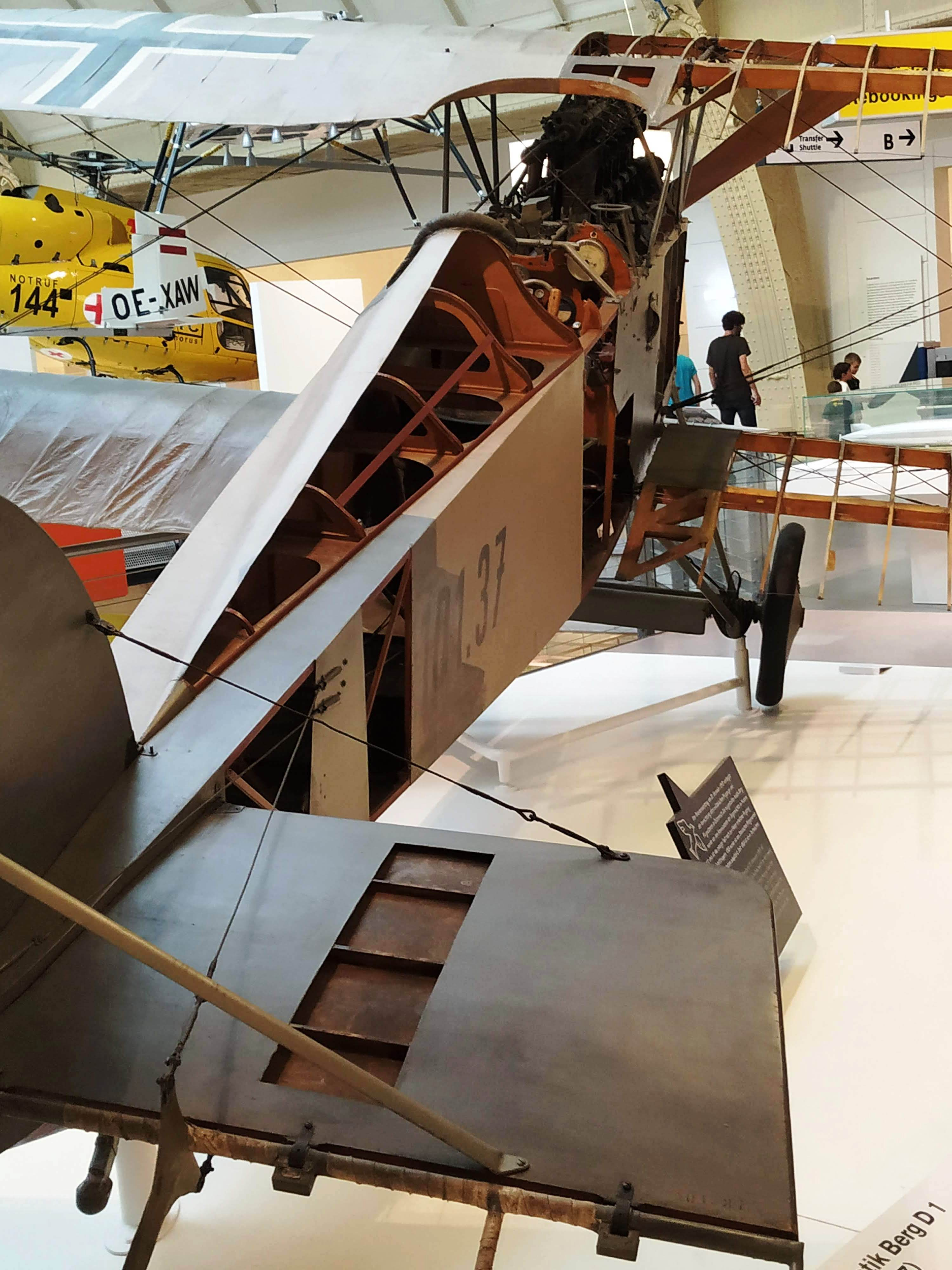 Airplane Aviatik Berg D 1 Fuselage and tail construction